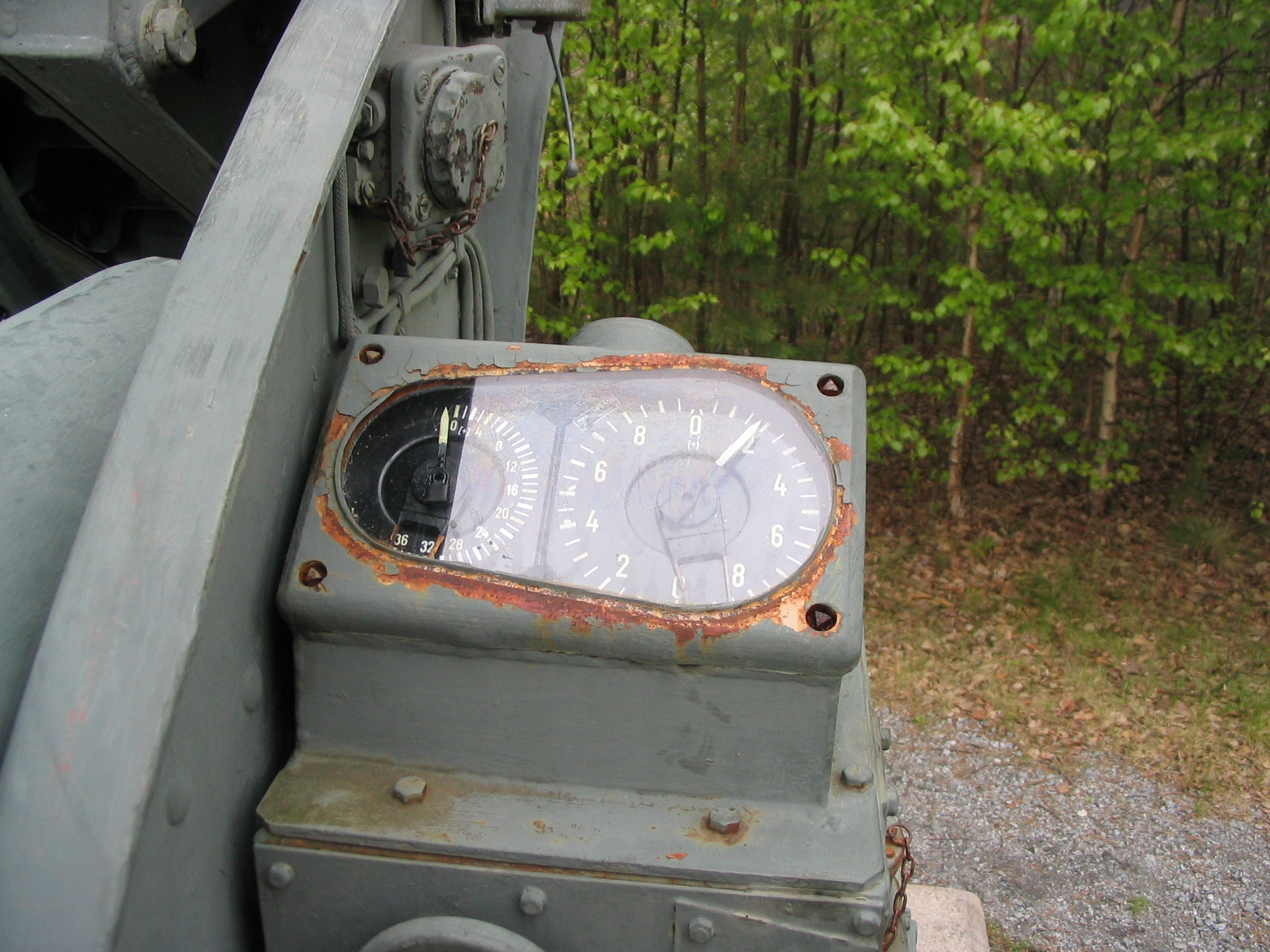 Anti-air gun timing machine